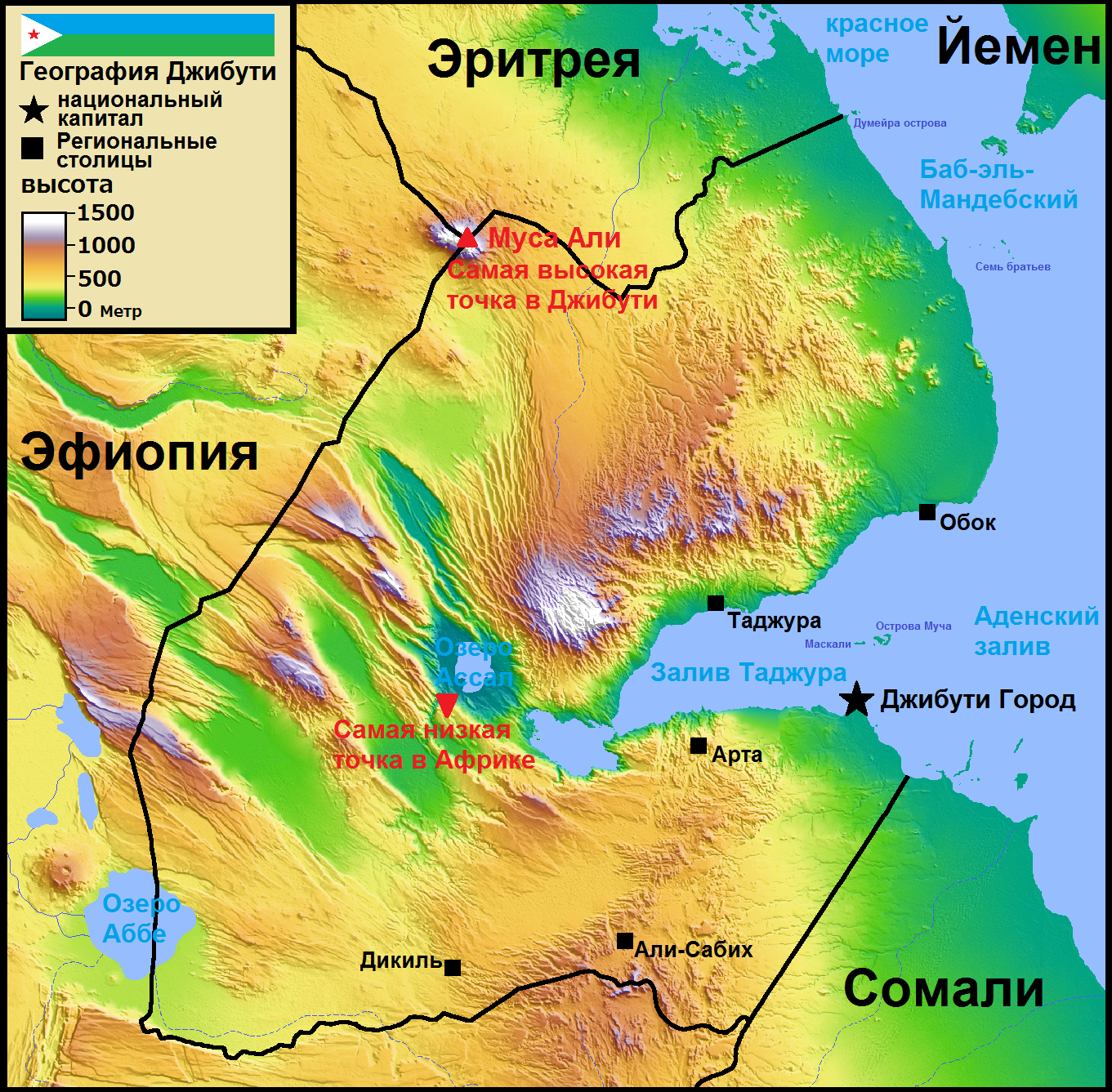 Map of Djibouti in Russian